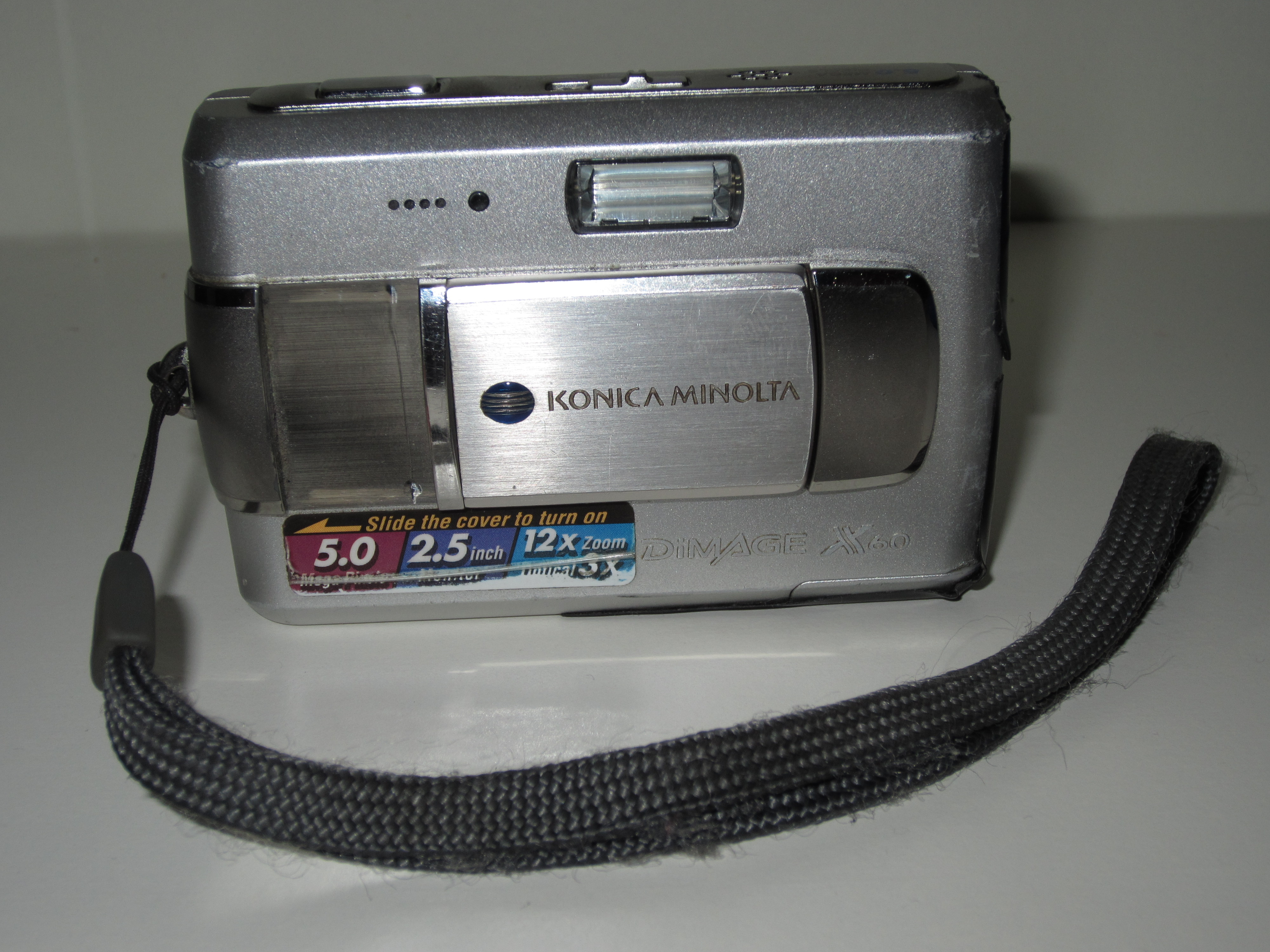 Compact digital still camera "DiMAGE X60" from Konica Minolta.